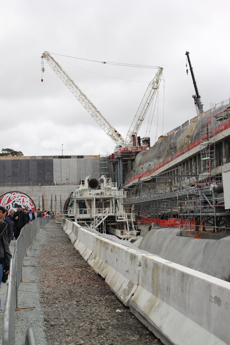 Waterview tunnel project (Mt Roskill end) open day. Boring machine and tunnel construction on view. 22,000 visits over the day. The Waterview Connection is a motorway section under construction through west/central Auckland, New Zealand. It is to connect the stub of State Highway 20 in the south from Mt Roskill to join up with another motorway, State Highway 16 in the west at Point Chevalier, and is a part of the Western Ring Route. It was formerly known as the SH20 Avondale extension. The Waterview link will be 4.5 km long, of which 2.5 km are to be in a mostly bored twin tunnel, with three lanes in each tunnel. 13 October 2013 source